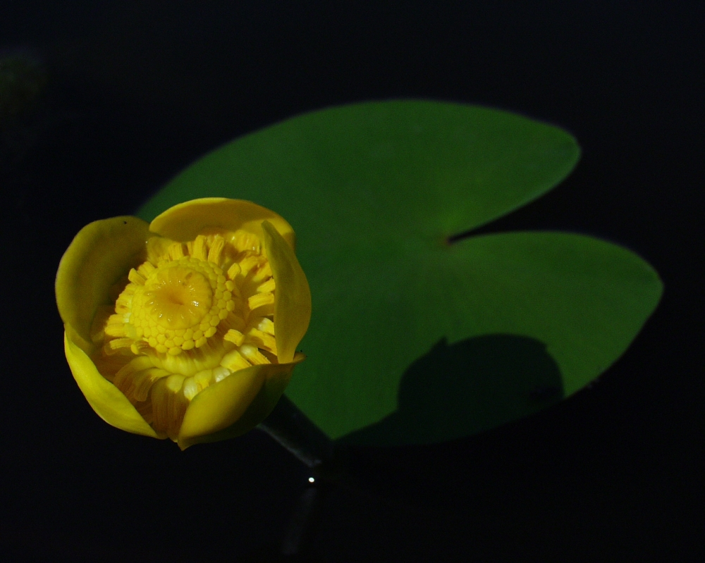 Nuphar in Nyirkai-Hany, Hungary